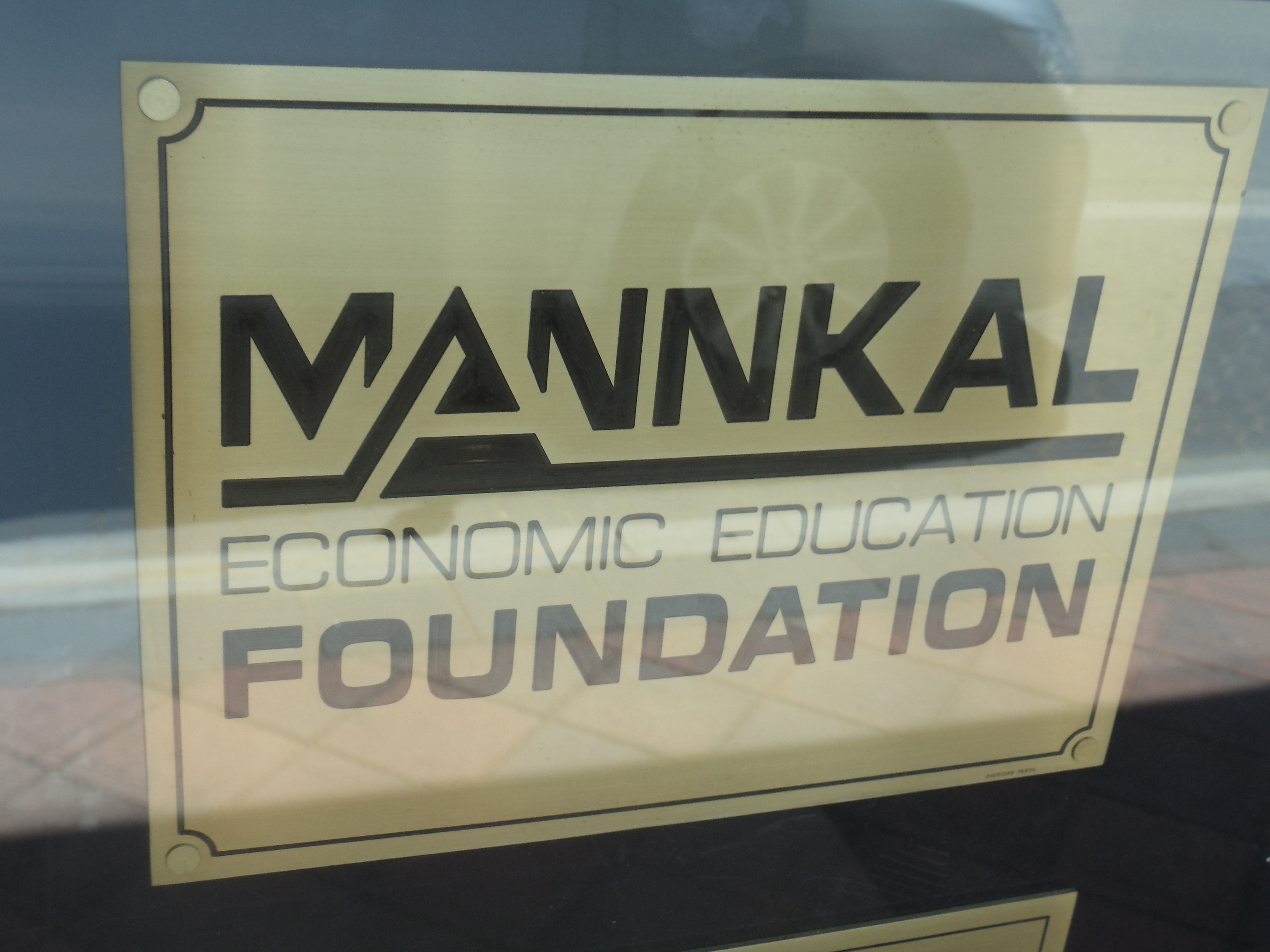 Sign of the Mannkal Economic Education Foundation on the main door on Hood Street.